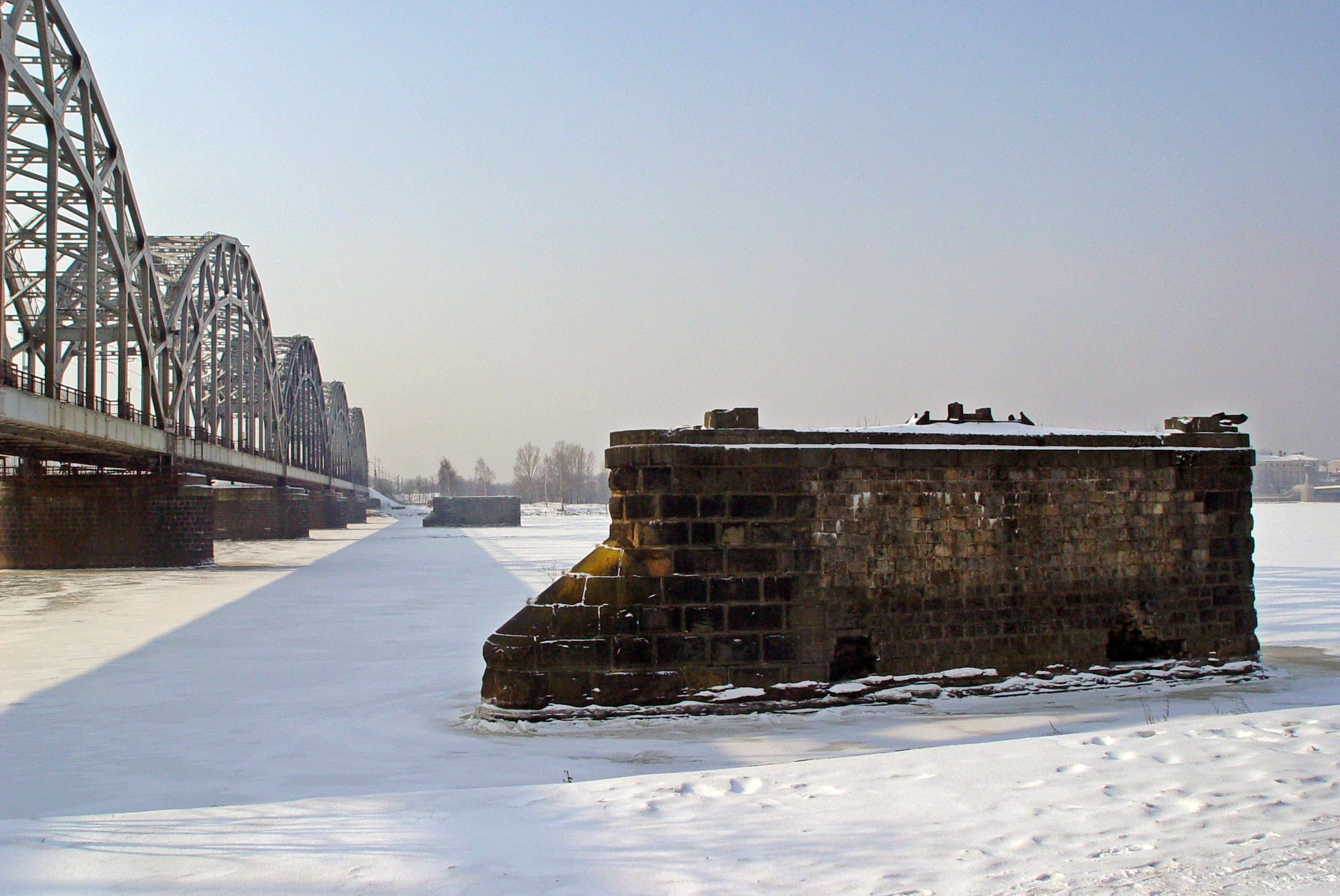 Remnants of Zemgale bridge in Riga